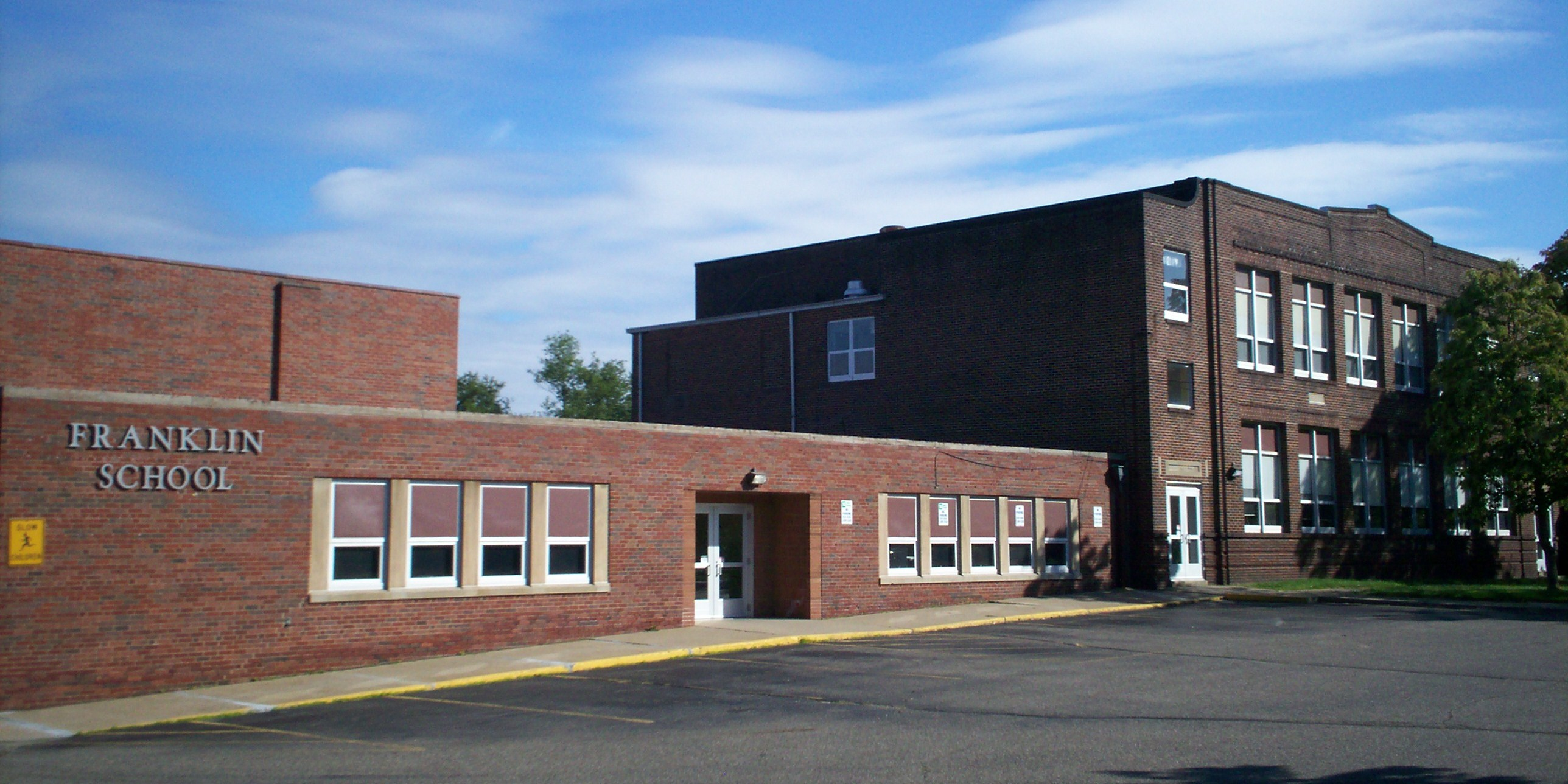 Front view of Franklin Elementary School in Kent, Ohio. The original portion of the building was the Franklin Township school before it was merged into the Kent City School District in 1959. Today it serves students in grades K-5 in northern Kent and northern Franklin Township.